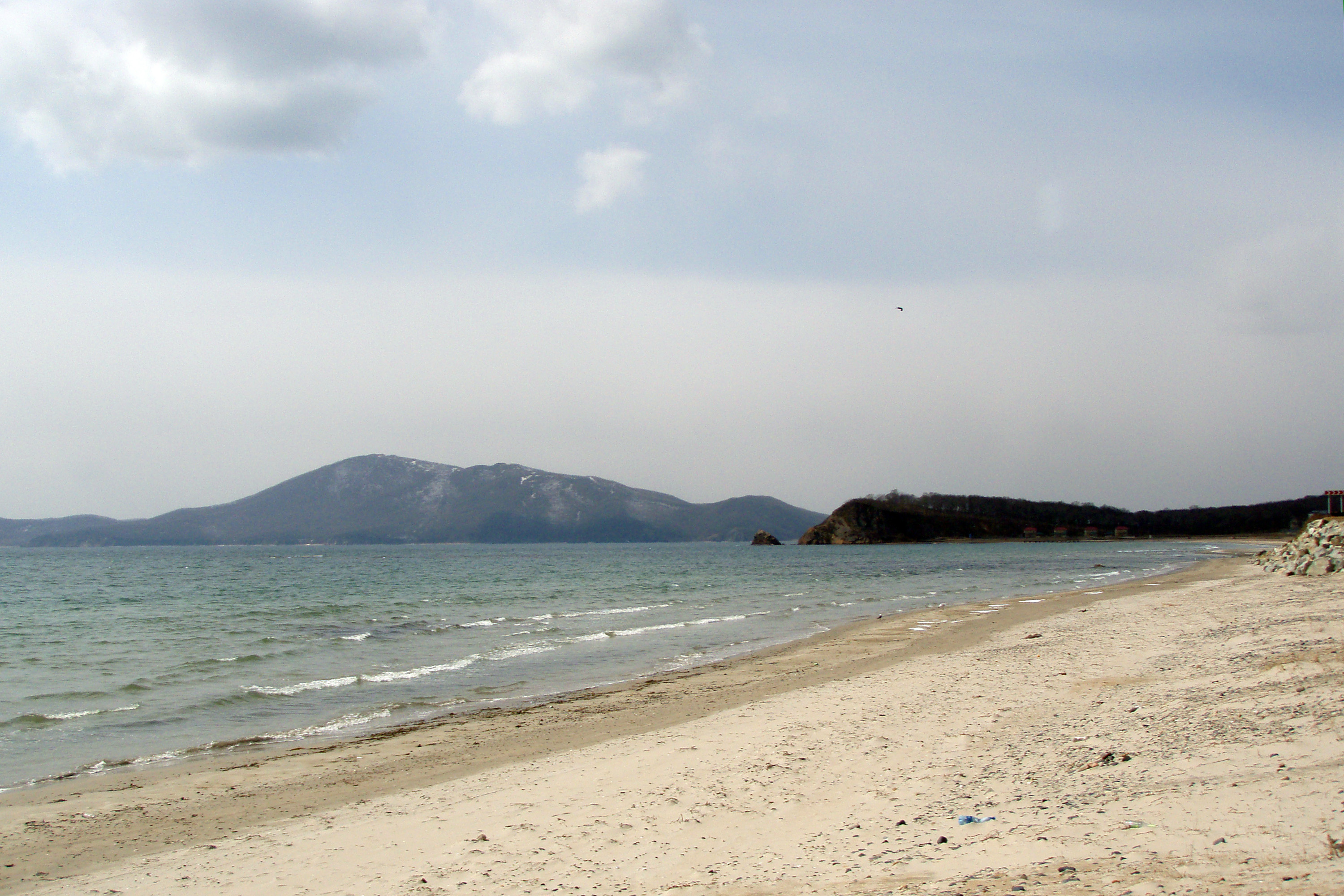 Strelok Bay and Putyatin island view, Primorsky Krai, Russia